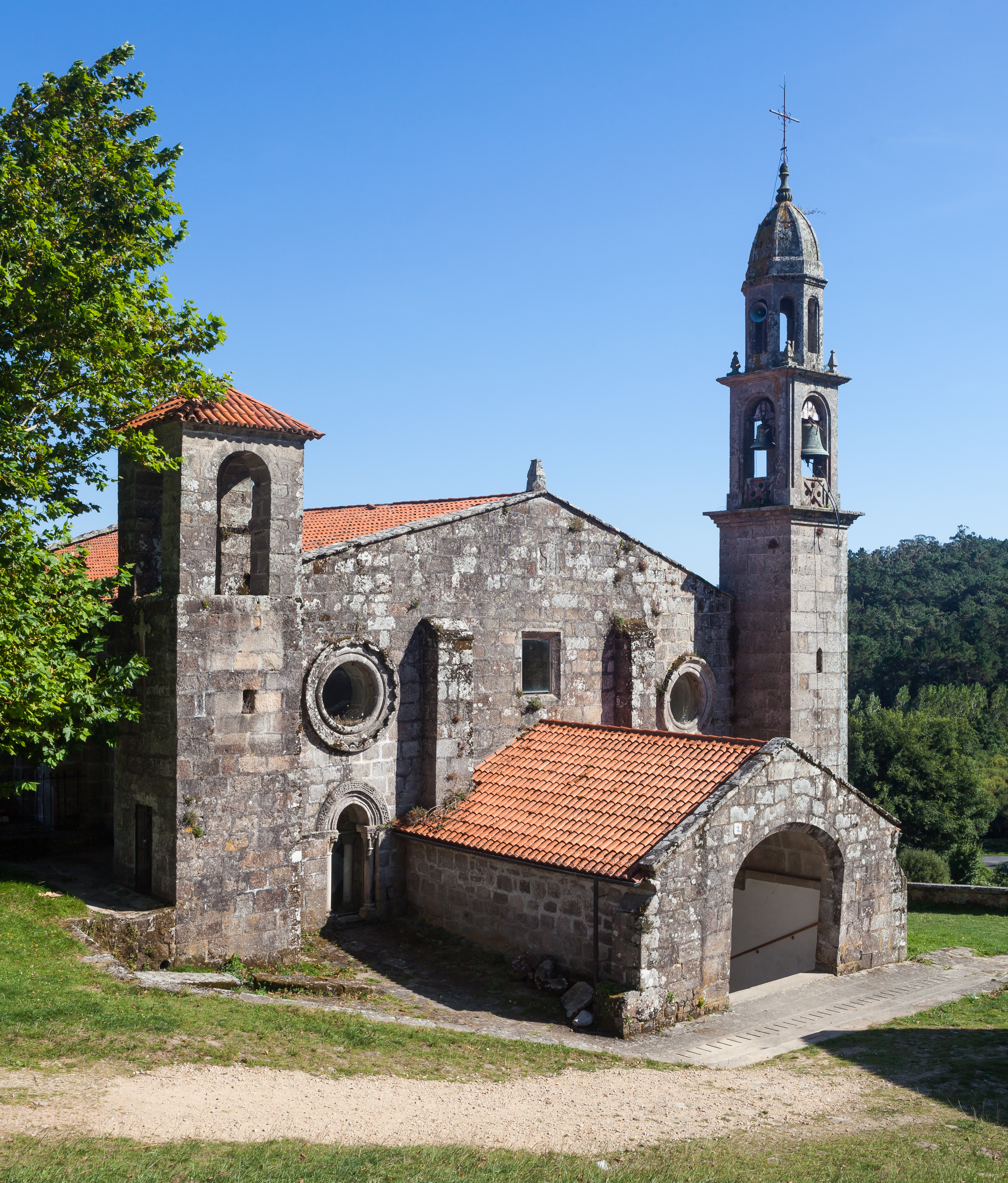 Church of San Xulián de Moraime. Muxía. Galicia (Spain).